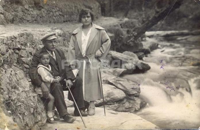 Nariman Narimanov with his wife Gulsum and son Najaf in Kislovodsk (1923)